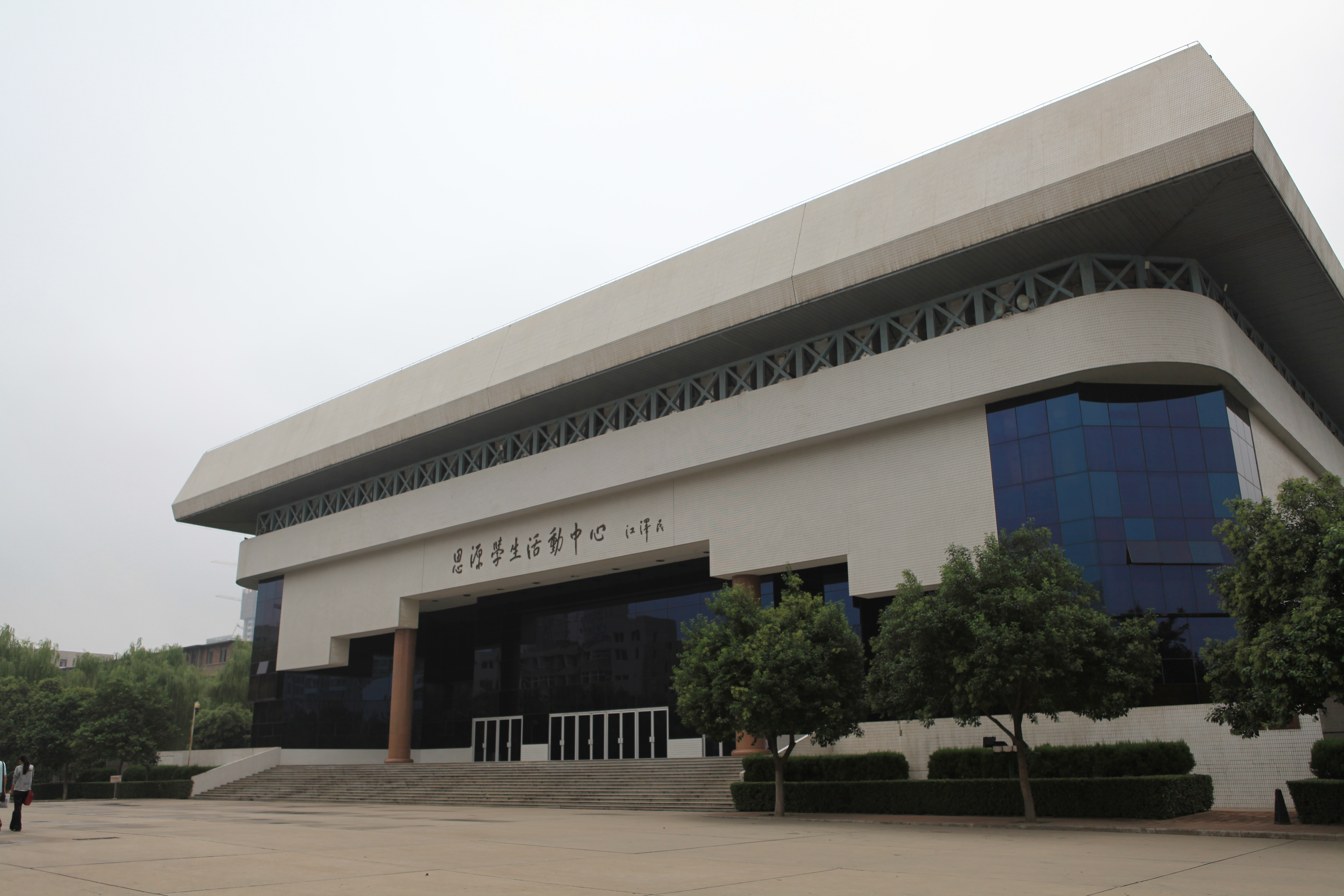 XJTU Student Recreation Center